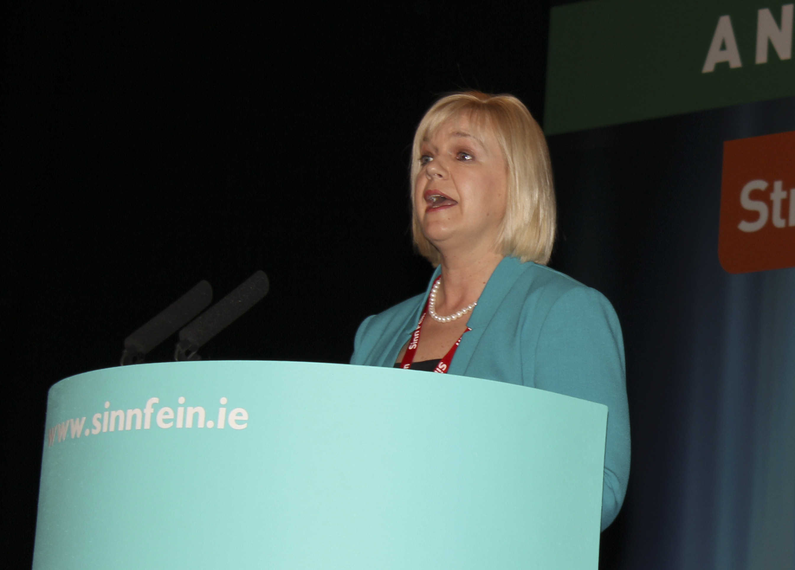 Sinn Féin's Sandra McLellan speaks at the Sinn Féin Ard Fheis